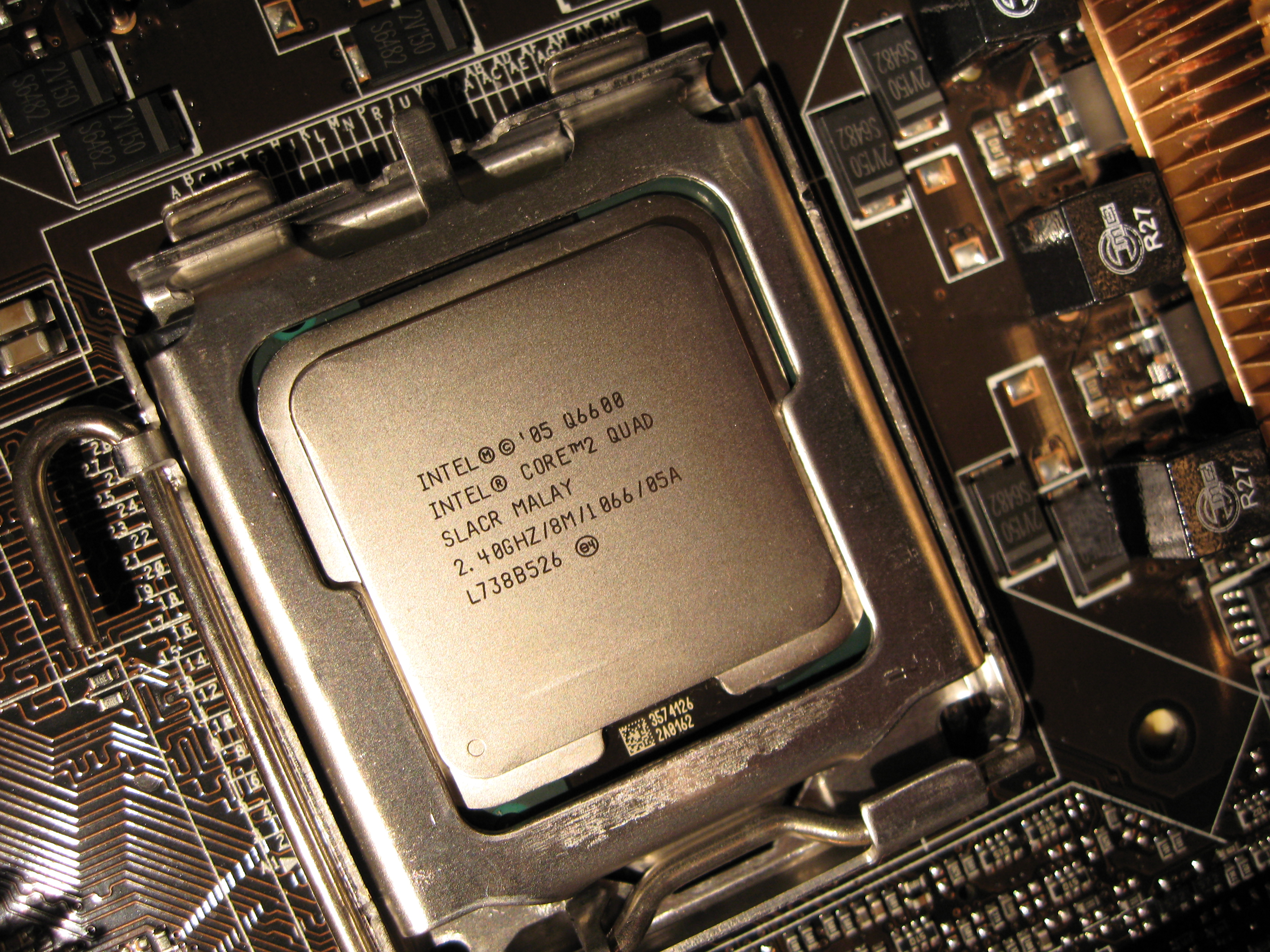 Core 2 Quad Q6600 CPU, Stepping G0, in socket